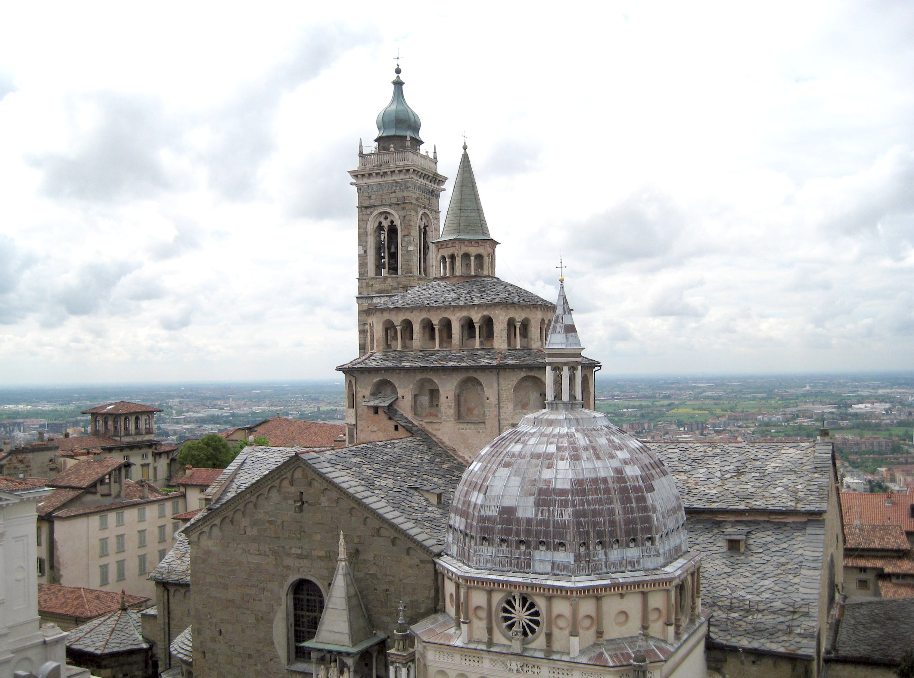 Bergamo, Italy - Roofs of Santa Maria Maggiore and Colleoni Chapel, seen from the top of the Campanone.